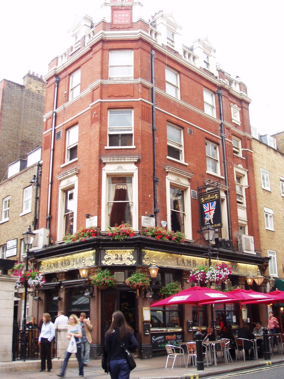 Busy tourist pub. Address: 24 James Street. Owner: Punch Taverns [Spirit Group]; Simonds (former). Links: Fancyapint Beer in the Evening Dead Pubs (history)